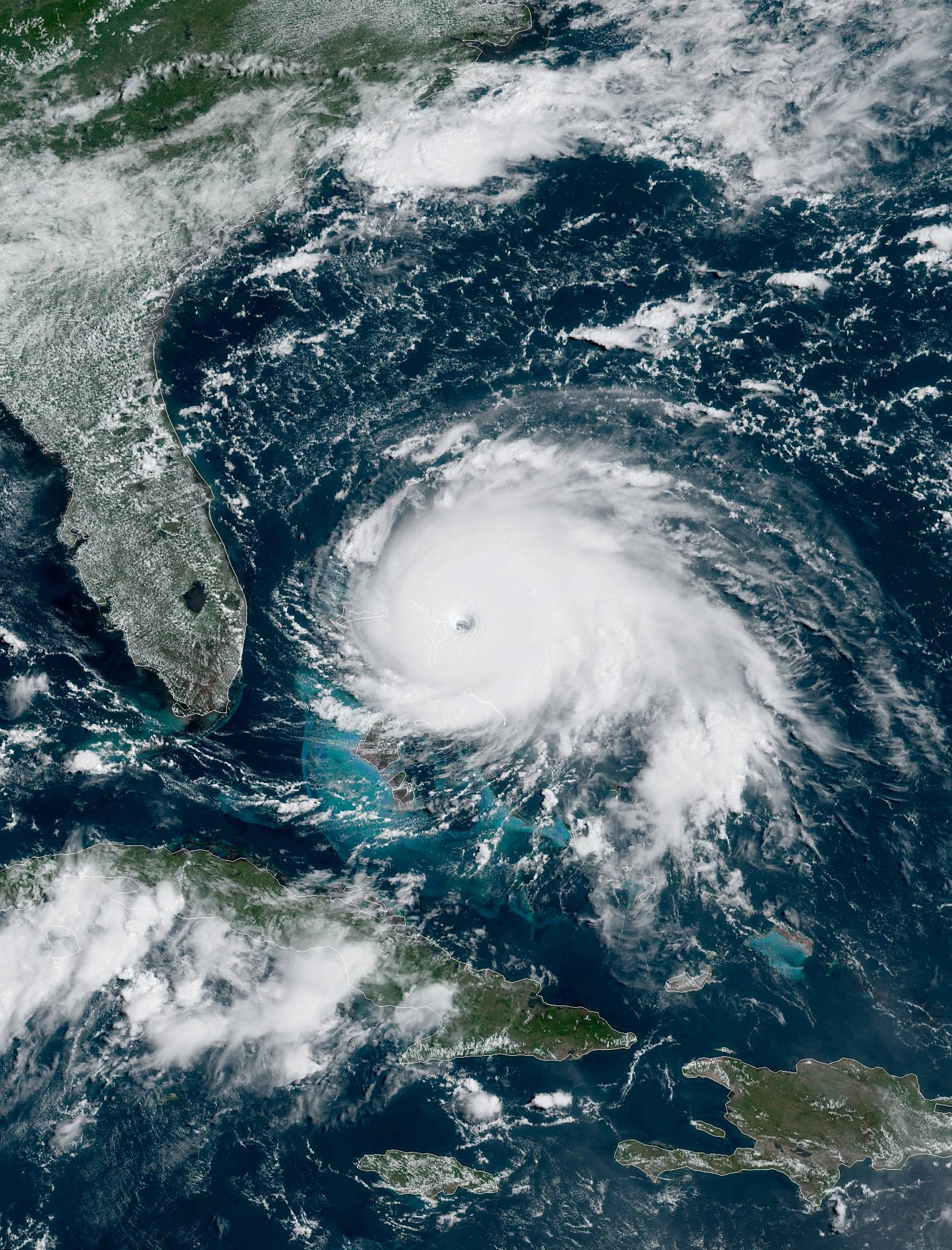 Hurricane Dorian making landfall on Elbow Cay, Bahamas on September 1, 2019